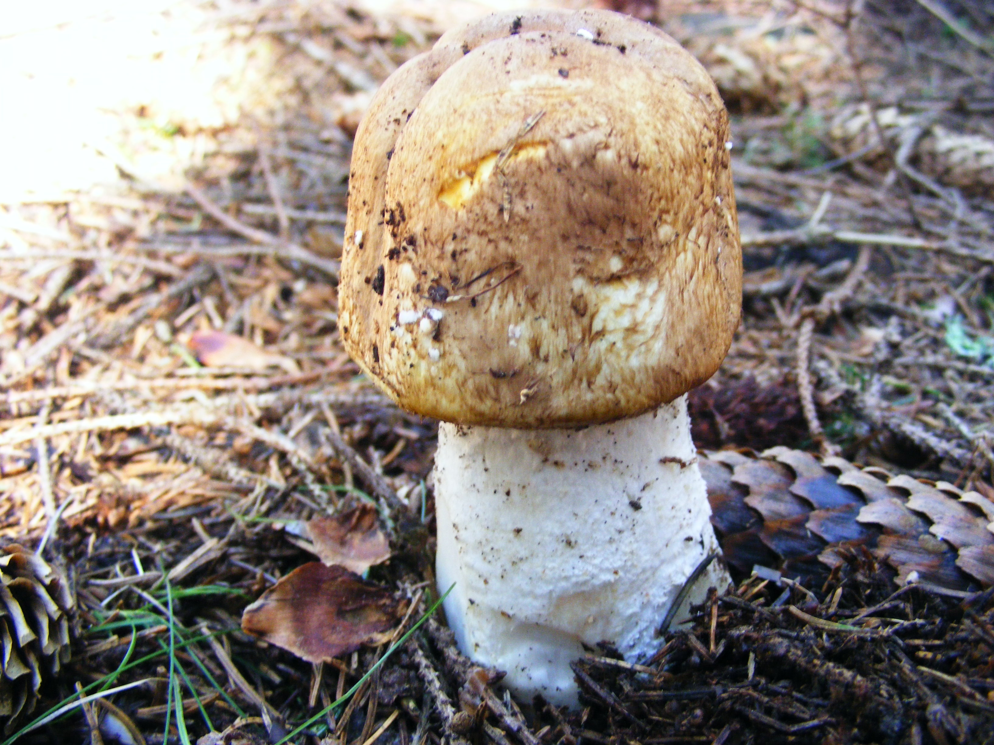 Agaricus augustus